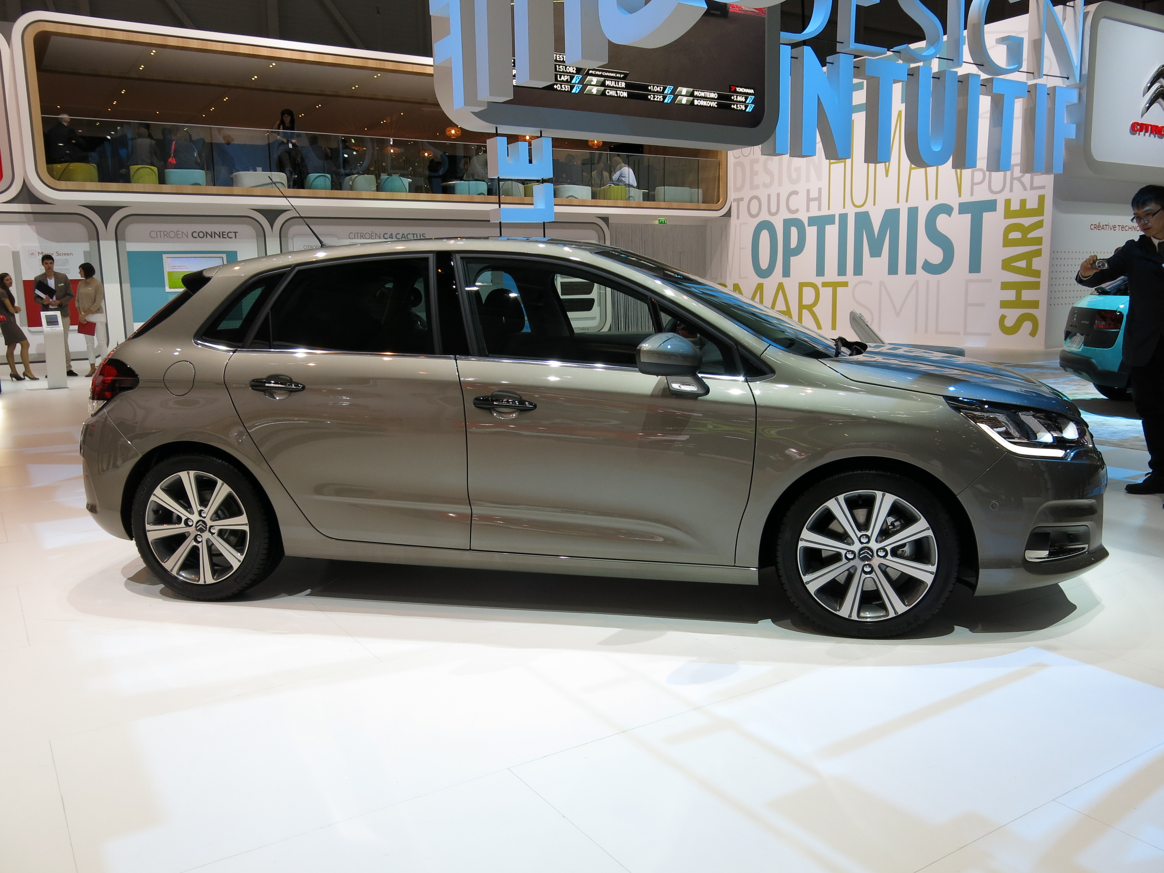 Geneva Motor Show 2015 (photo taken on the first press day)